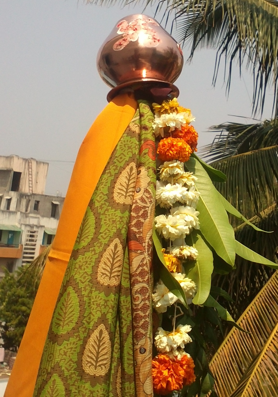 A Gudhi erected on . A Hindu lunar new year's Day.